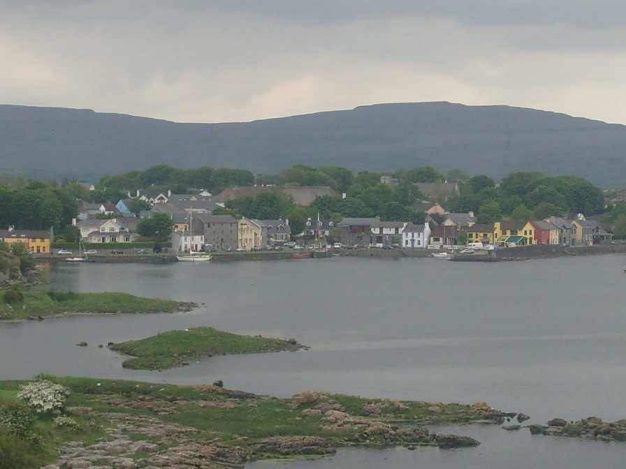 A view of Kinvara from Dunguaire Castle, Co. Galway, Éire